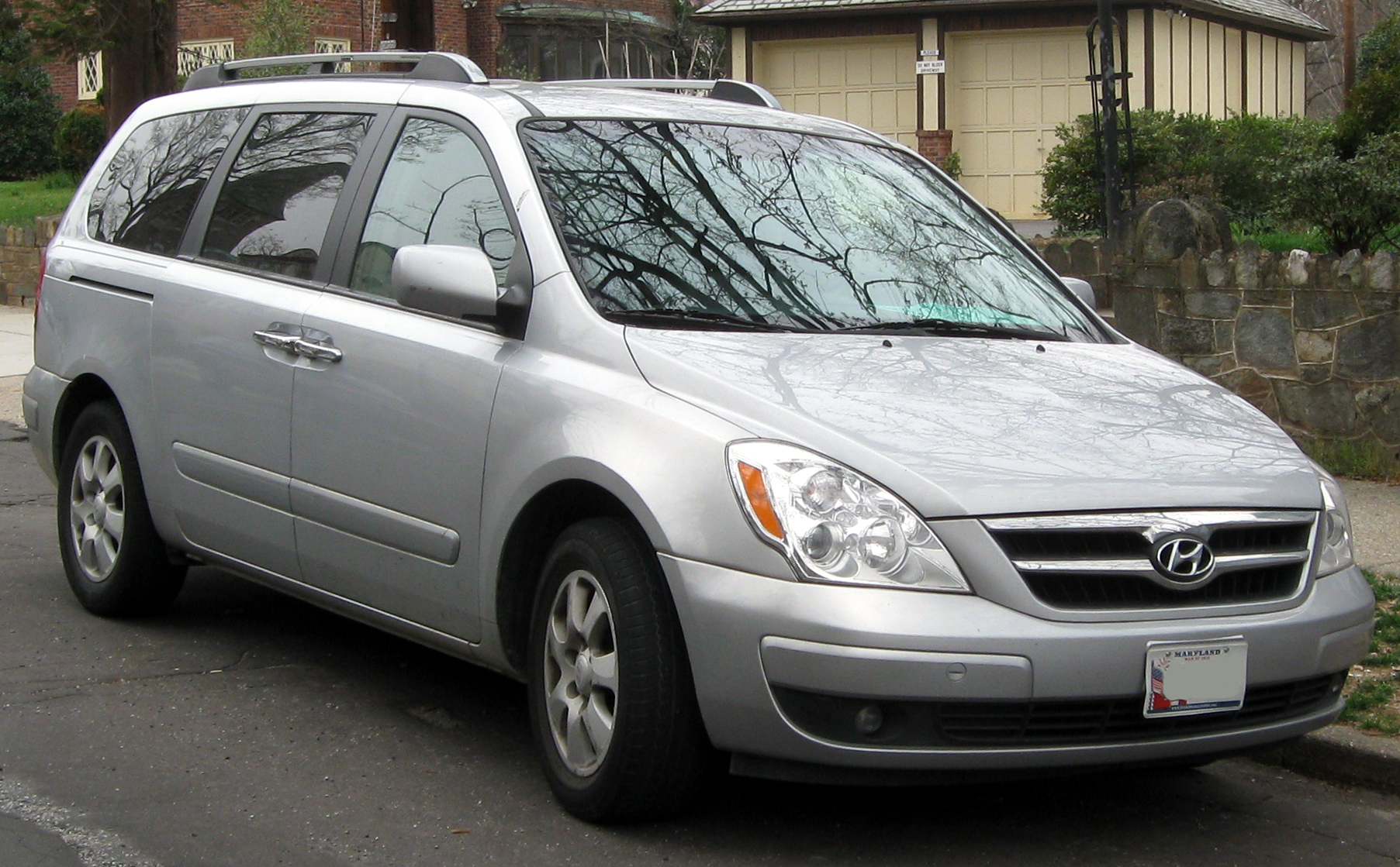 Hyundai Entourage photographed in Washington, D.C., USA.